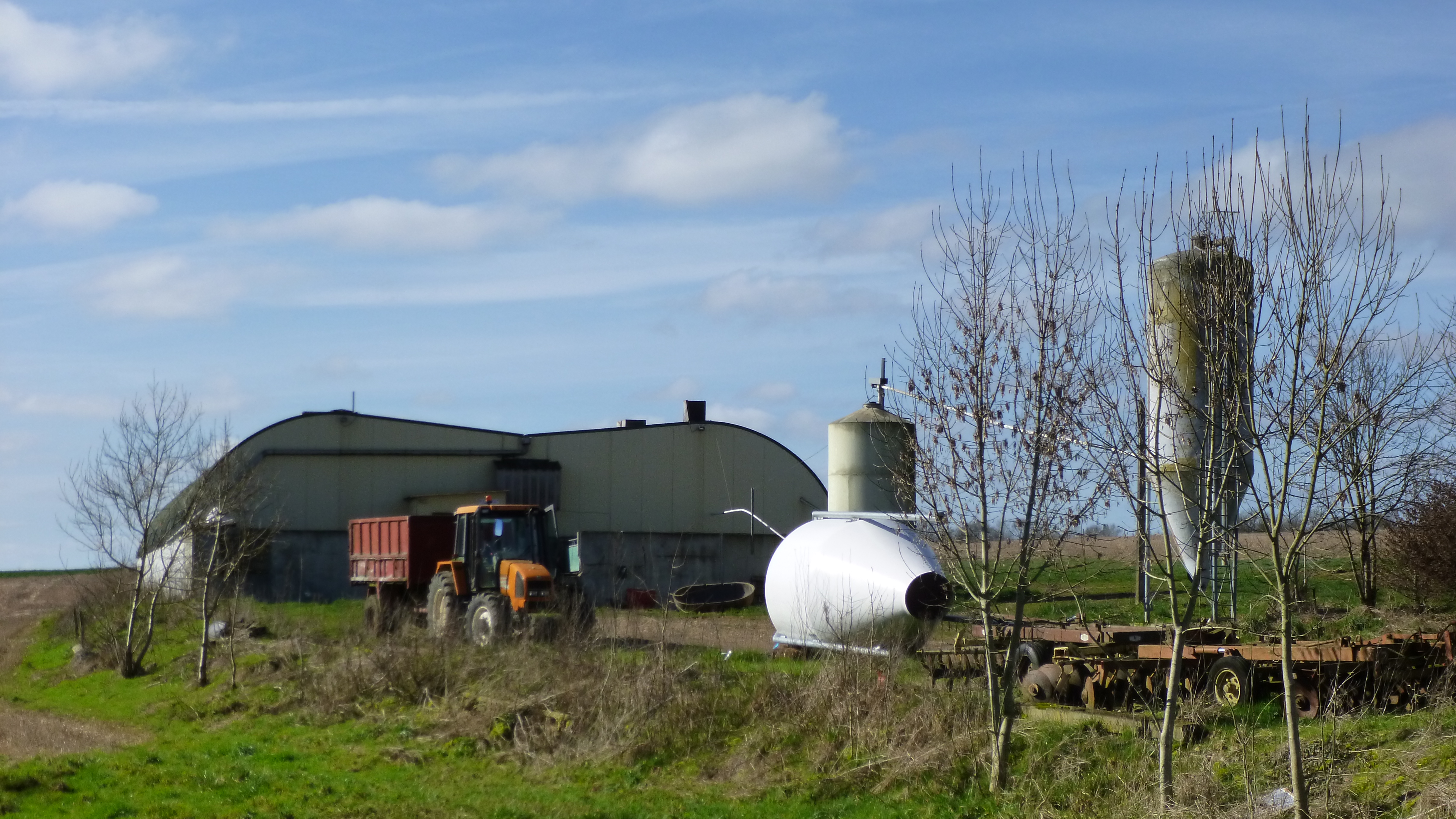 Saint-Denis-sur-Ouanne, N-W of Yonne, Burgundy, N-W of St-Denis. Pig farm at the hamlet Les Blés, N-W of Saint-Denis. The ru des Entonnoirs, a small tributary of the Ouanne river, flows nearby the camera's location.